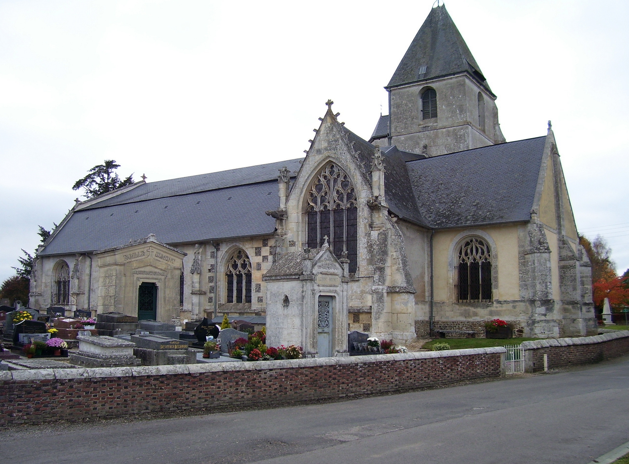 Eastern façade of the church Saint-Sulpice in Plasnes (Eure, Haute-Normandie) in France.